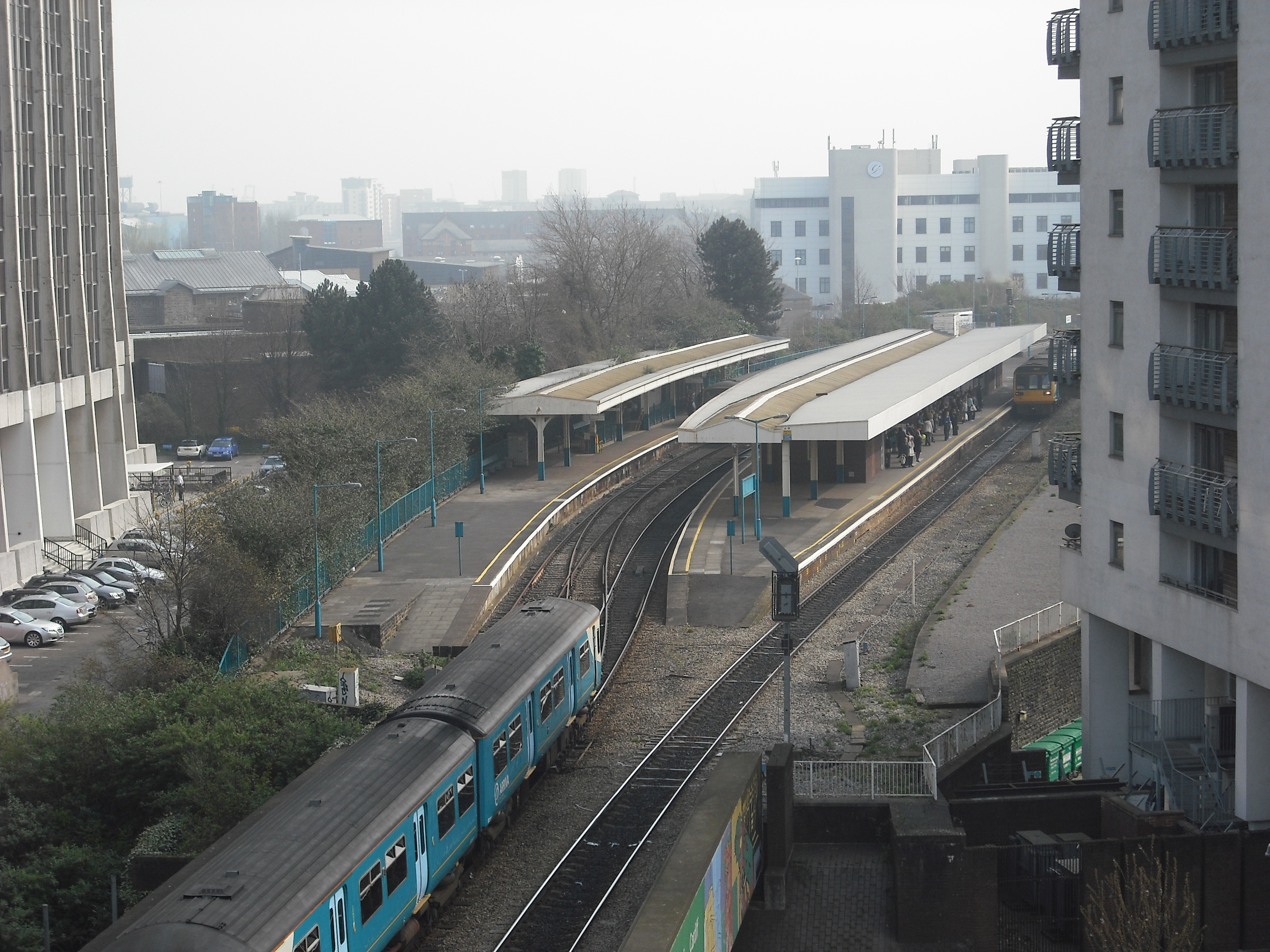 Cardiff Queen Street railway station looking south - the train in the foreground is approaching platform 2 for Cardiff Central and the train in the background is on platform 1 calling next at either Cathays, Heath High Level or Heath Low Level.